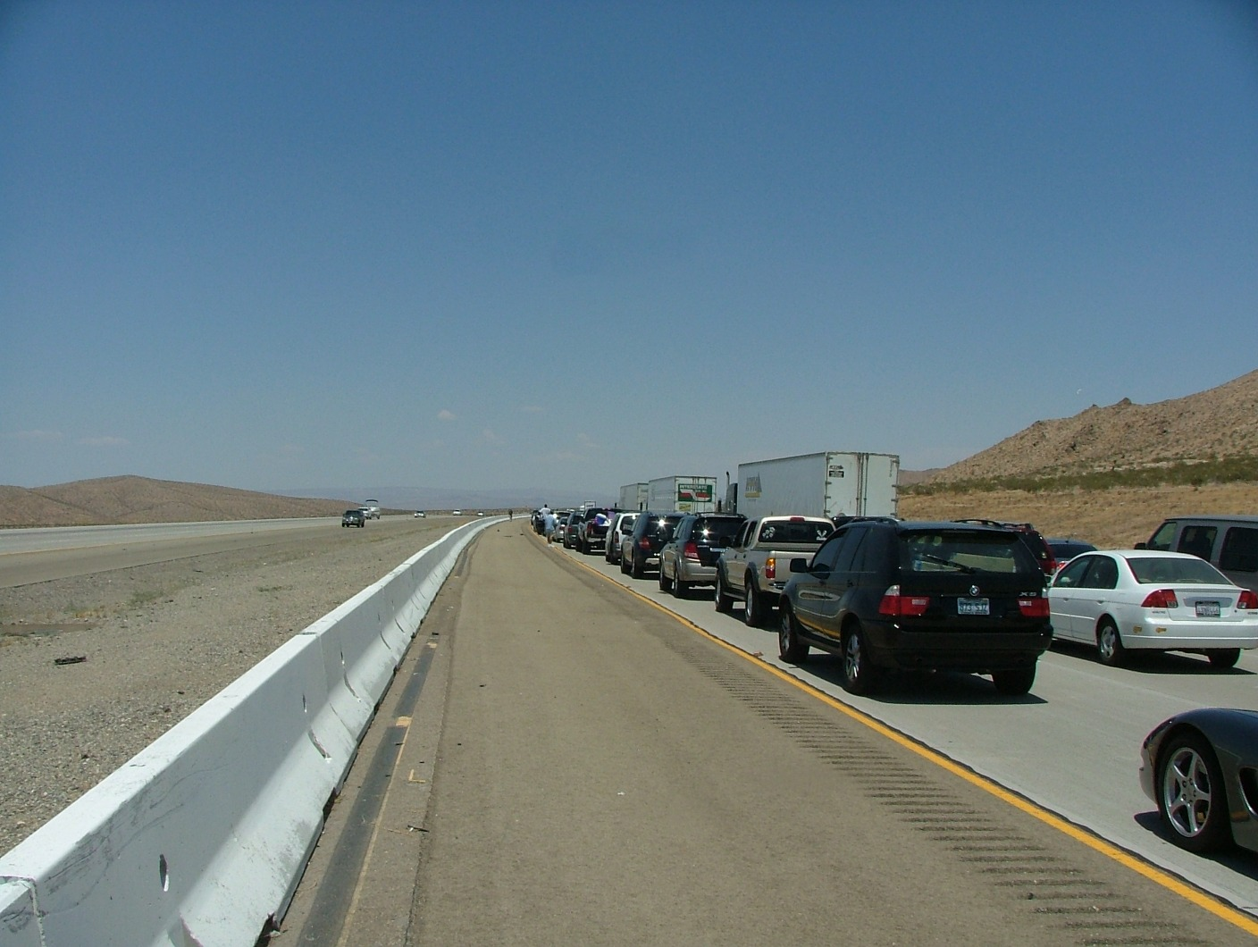 I-15 near Barstow, California. Direction Nevada.